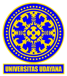 New Universitas Udayana Logo